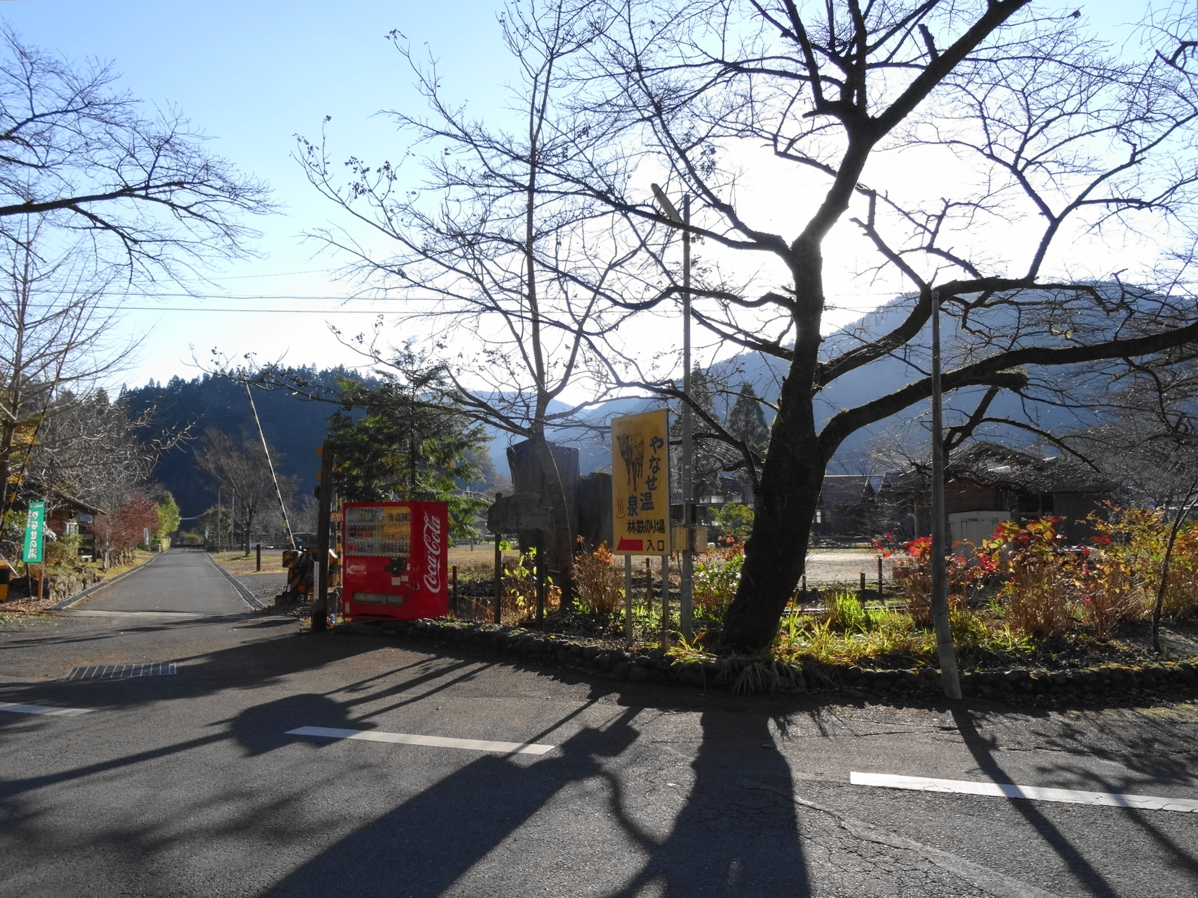 Yanase Maruyama Park in Umaji, Kochi, Japan